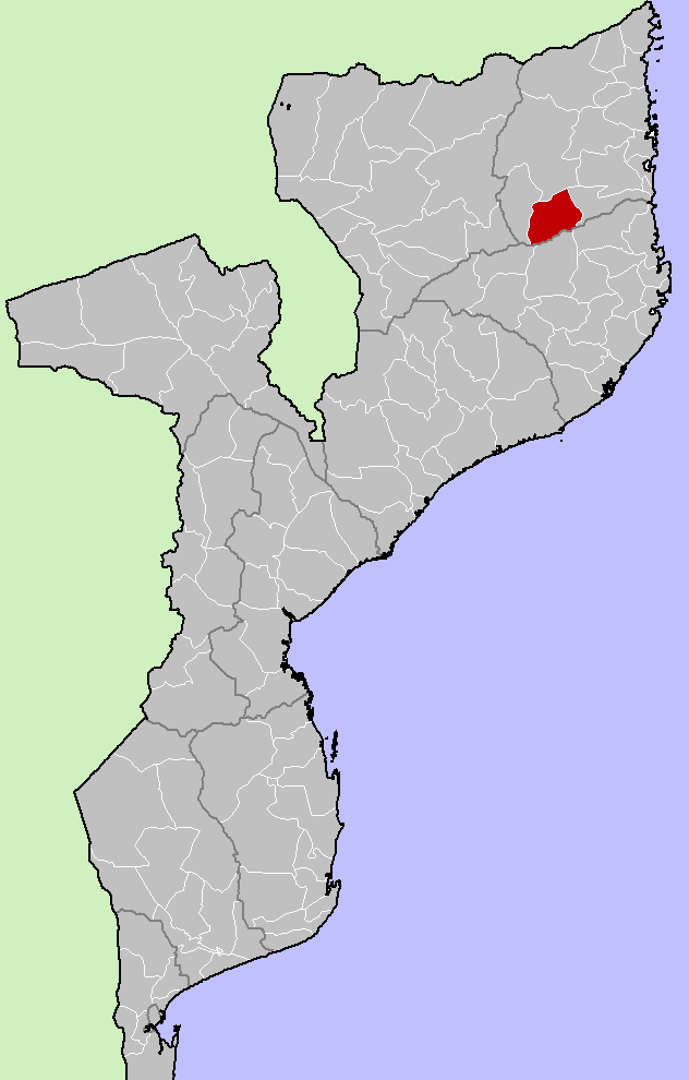 District locator in Mozambique